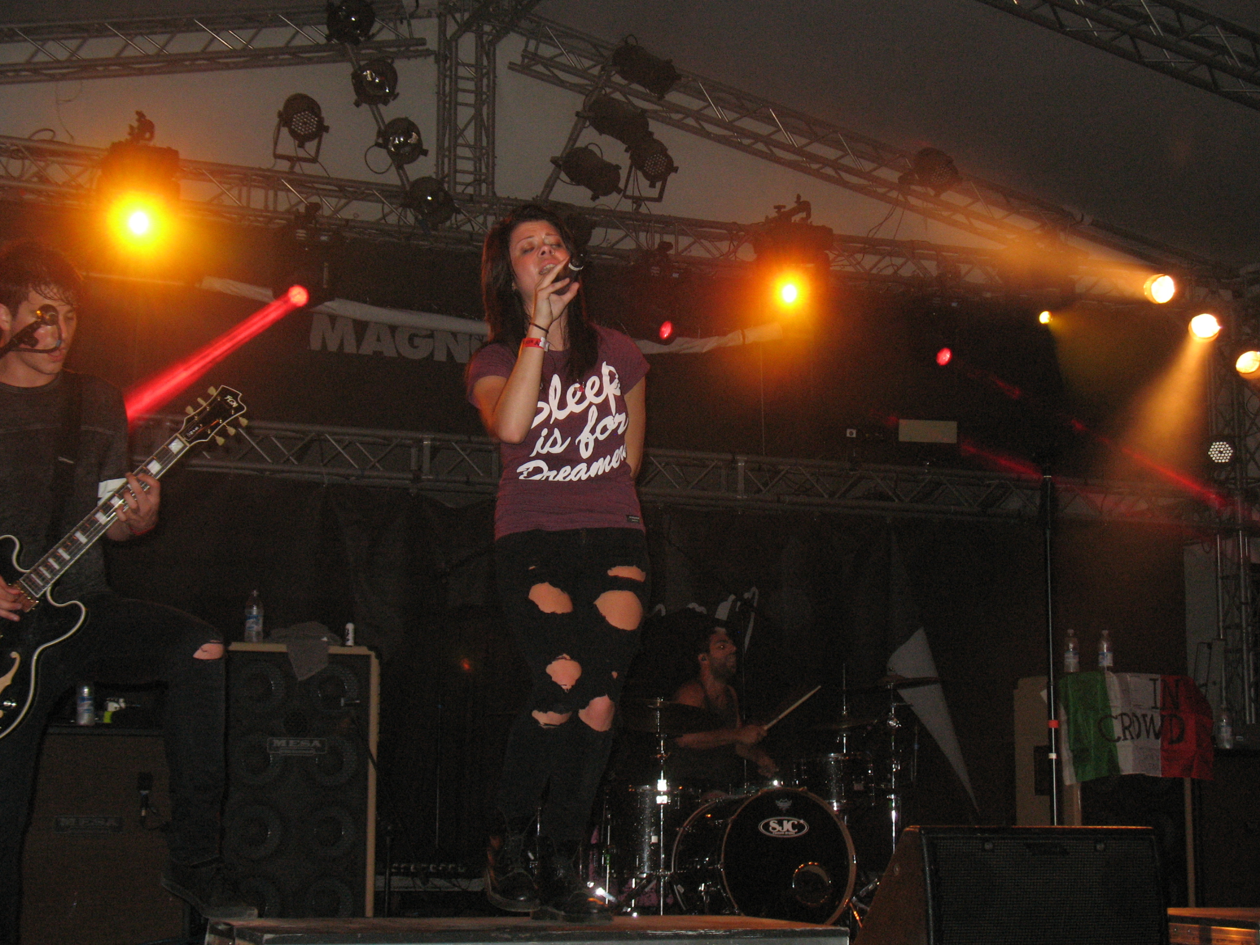 We Are the In Crowd singer Tay Jardine live in Milan, Italy, on 2013-08-29.